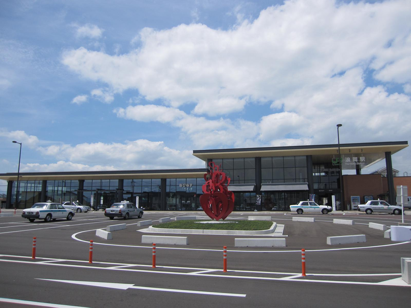 Namioka station rotary.